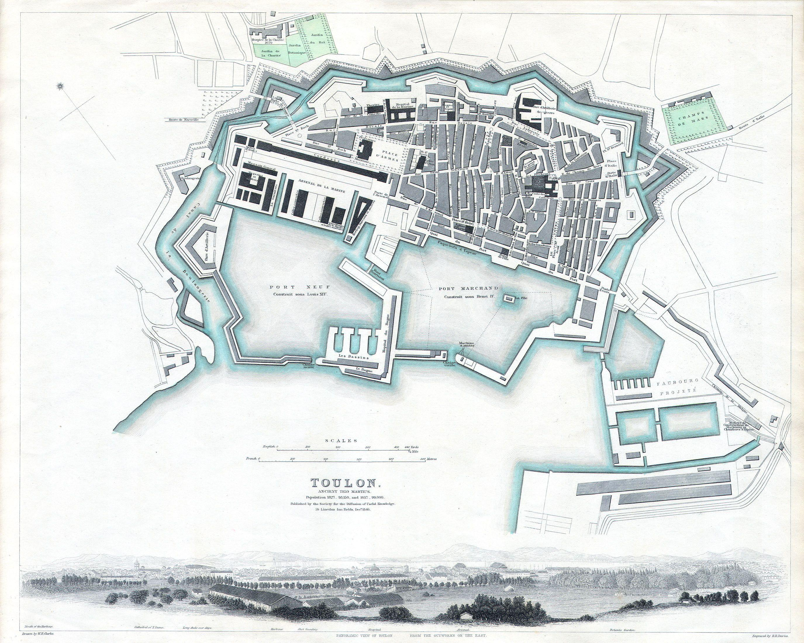 This map is a steel plate engraving, dating to 1840 and published by the S.D.U.K. or “The Society for the Diffusion of Useful Knowledge”. It represents the southern French city of Toulon, on the French Riviera between Marseilles & San Tropez.